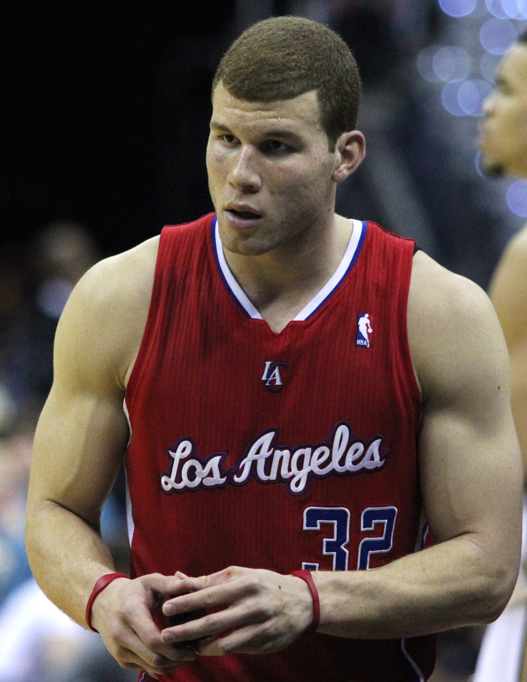 Los Angeles Clippers Blake Griffin during a game against the Washington Wizards at the Verizon Center in Washington on March 12, 2011.